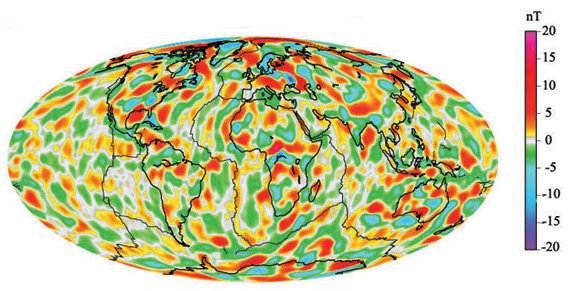 Lithospheric Magnetic Anomalies. A modeled image of Earth's magnetic field variations created as a result of science satellites like Magsat. nT = nanoteslas. The color bar indicates areas with positive and negative magnetic fields.